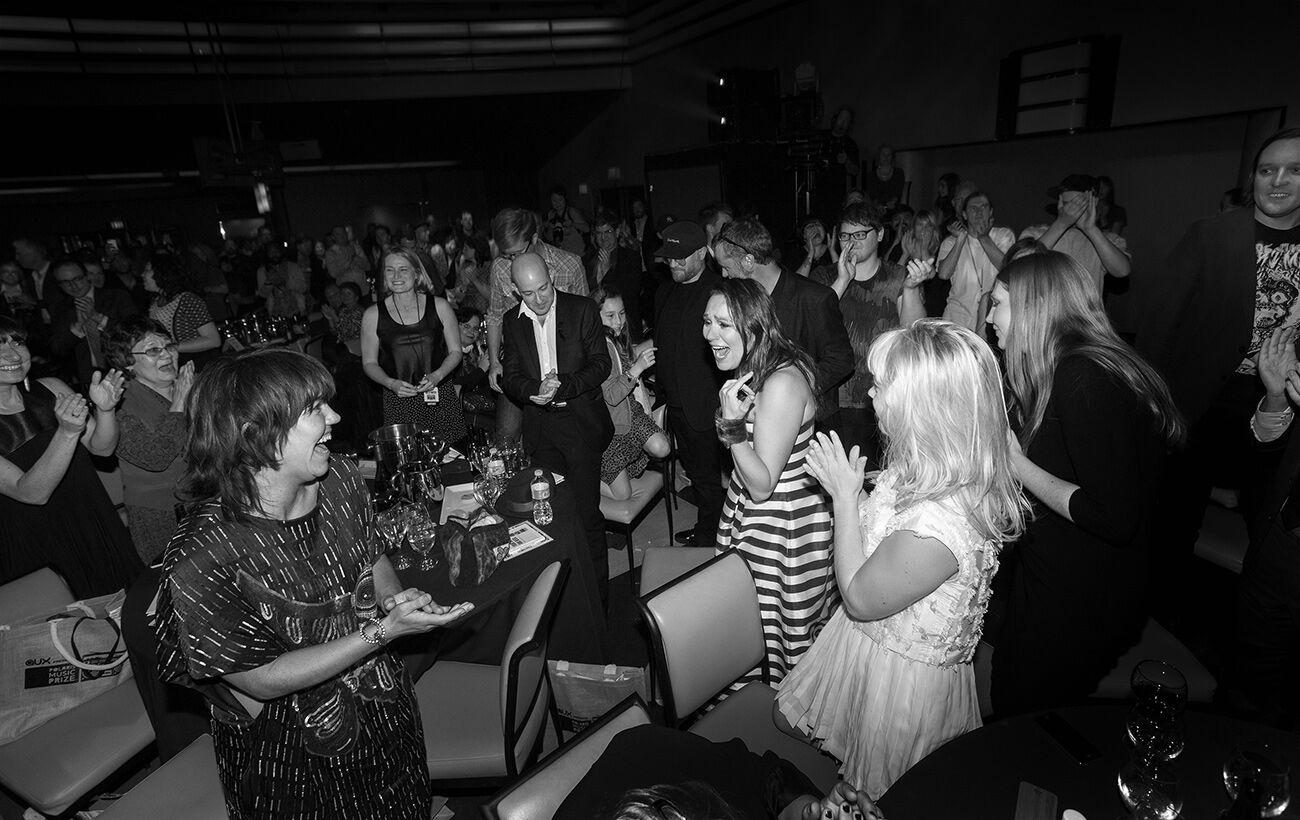 Tanya Tagaq wins 2014 Polaris Prize. Photo by Dustin Rabin/Polaris Music Prize